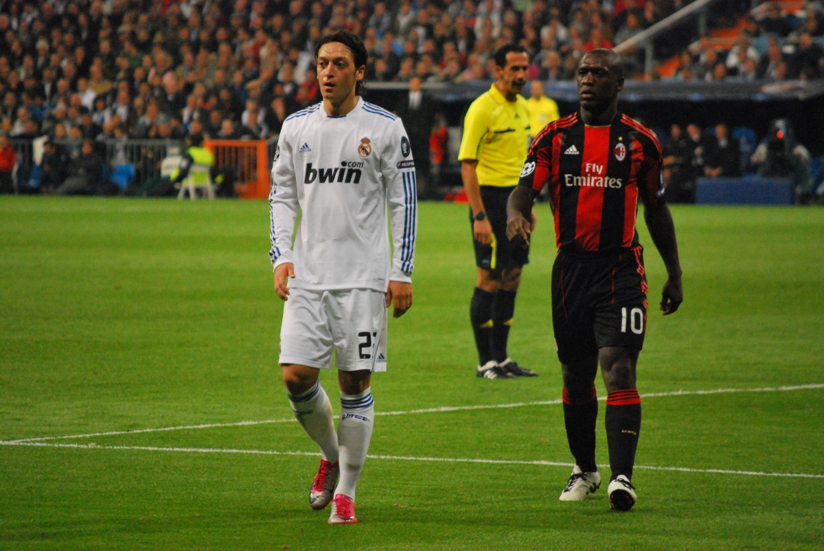 Clarence Seedorf and Mesut Özil during Real Madrid CF-AC Milan, 2010–11 UEFA Champions League